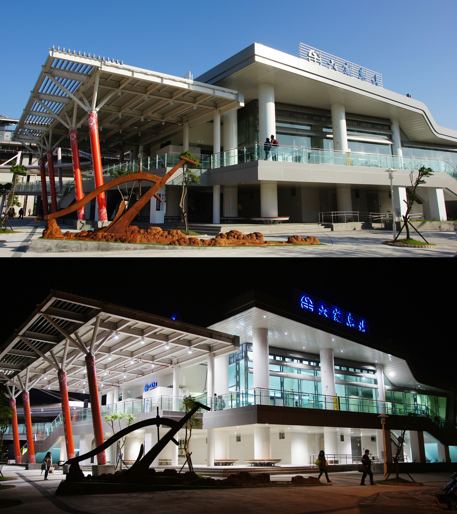 The daytime and night scene of Liujia Station, Taiwan Railway Administration.